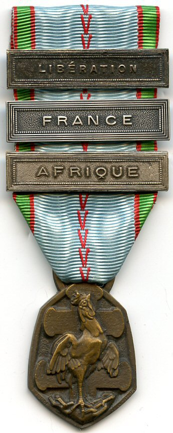 1939-1945 Commemorative War Medal (France) - Obverse